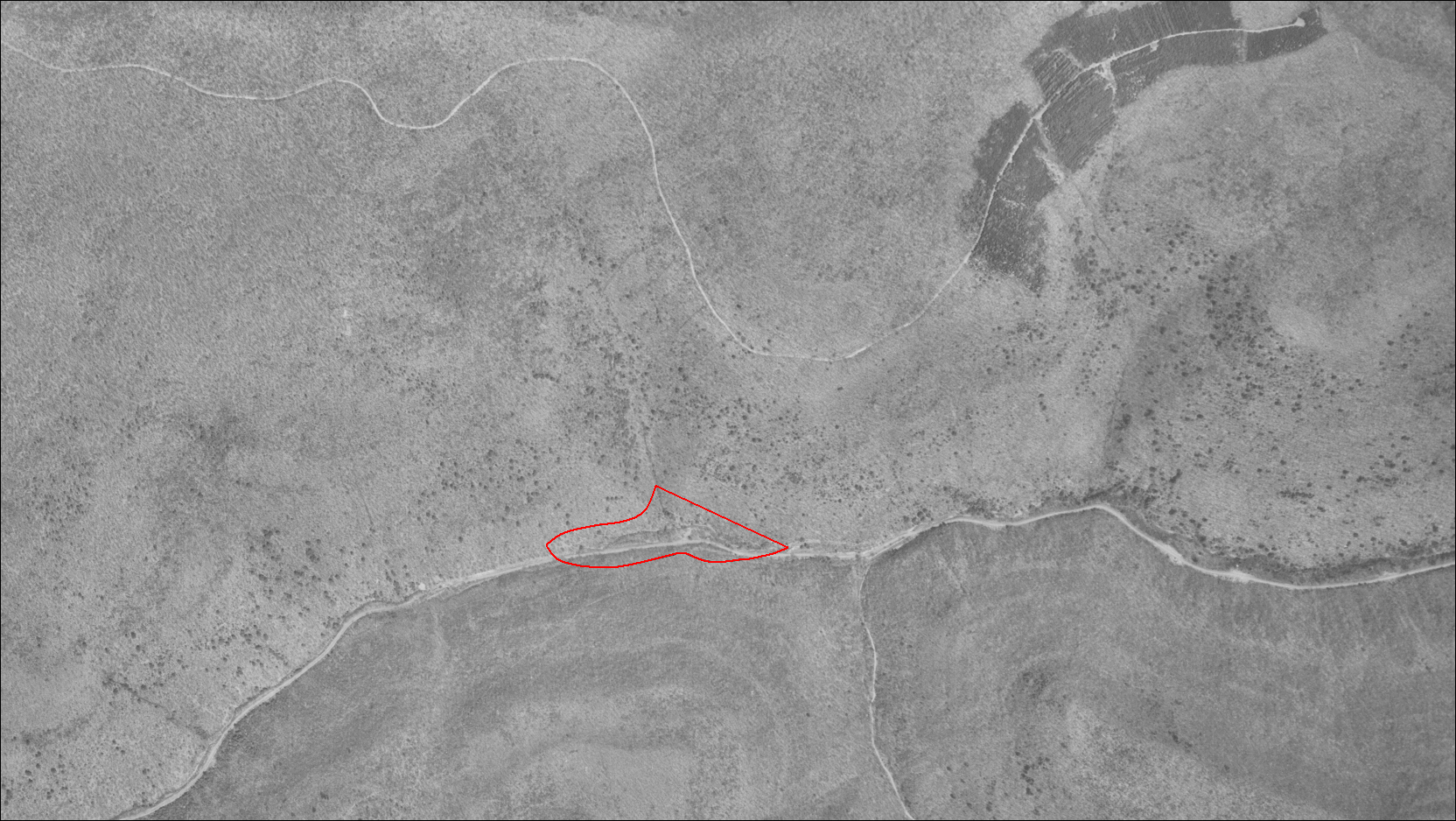 Cropped aerial photo of Upper Pine Bottom State Park and the surrounding Tiadaghton State Forest in Cummings Township, Lycoming County, Pennsylvania in the United States. Pennsylvania Route 44 is the highway crossing diagonally from left to right. North is up. Red outline is the approximate outline of the state park, taken from this PennDOT map and the Pennsylvania Department of Conservation and Natural Resources, Bureau of Forestry. Haneyville ATV Trail: Tiadaghton State Forest: Lycoming County map. (2008)